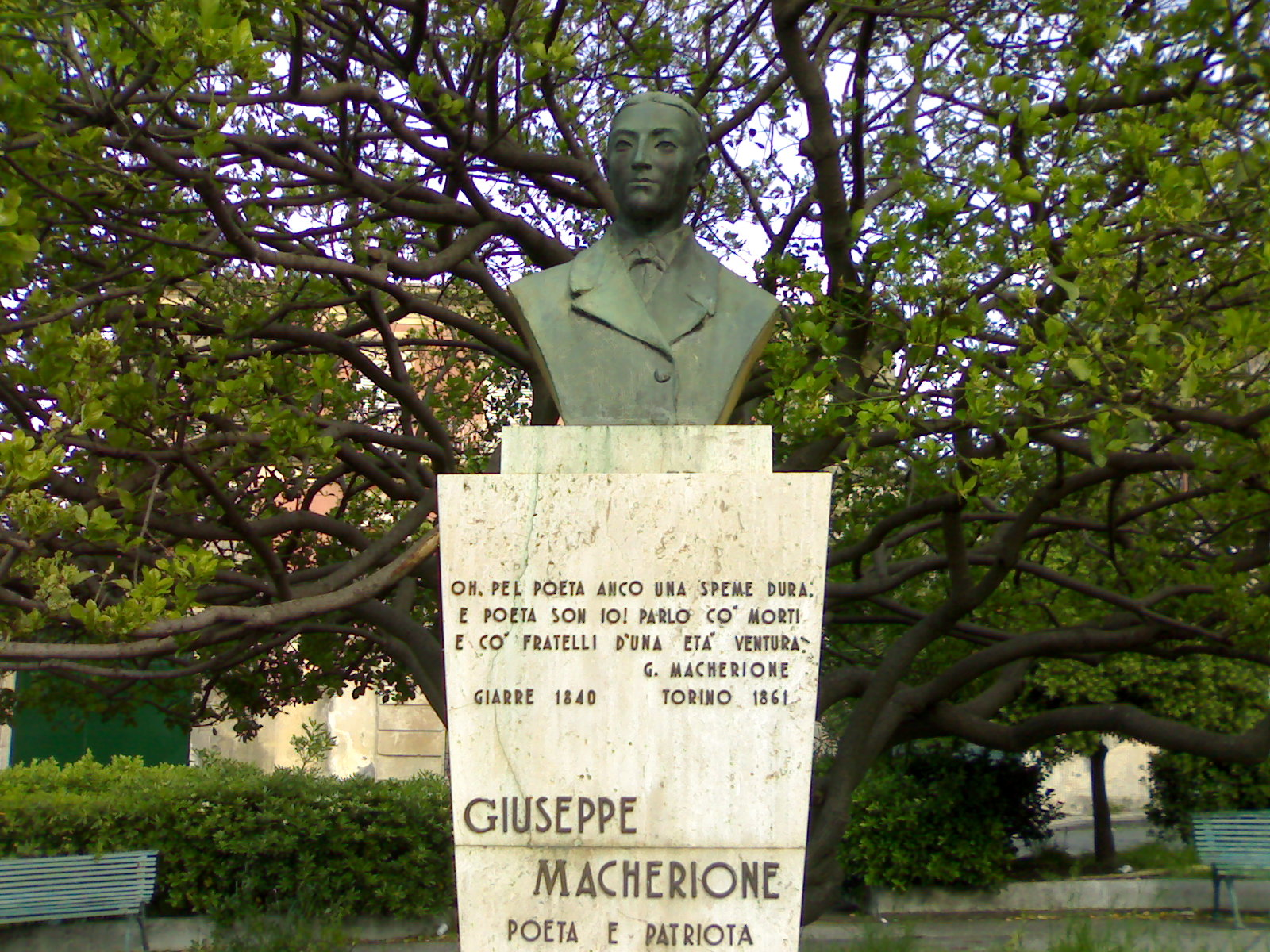 Busto di Giuseppe Macherione, Giarre, Sicily, Italy; 2008